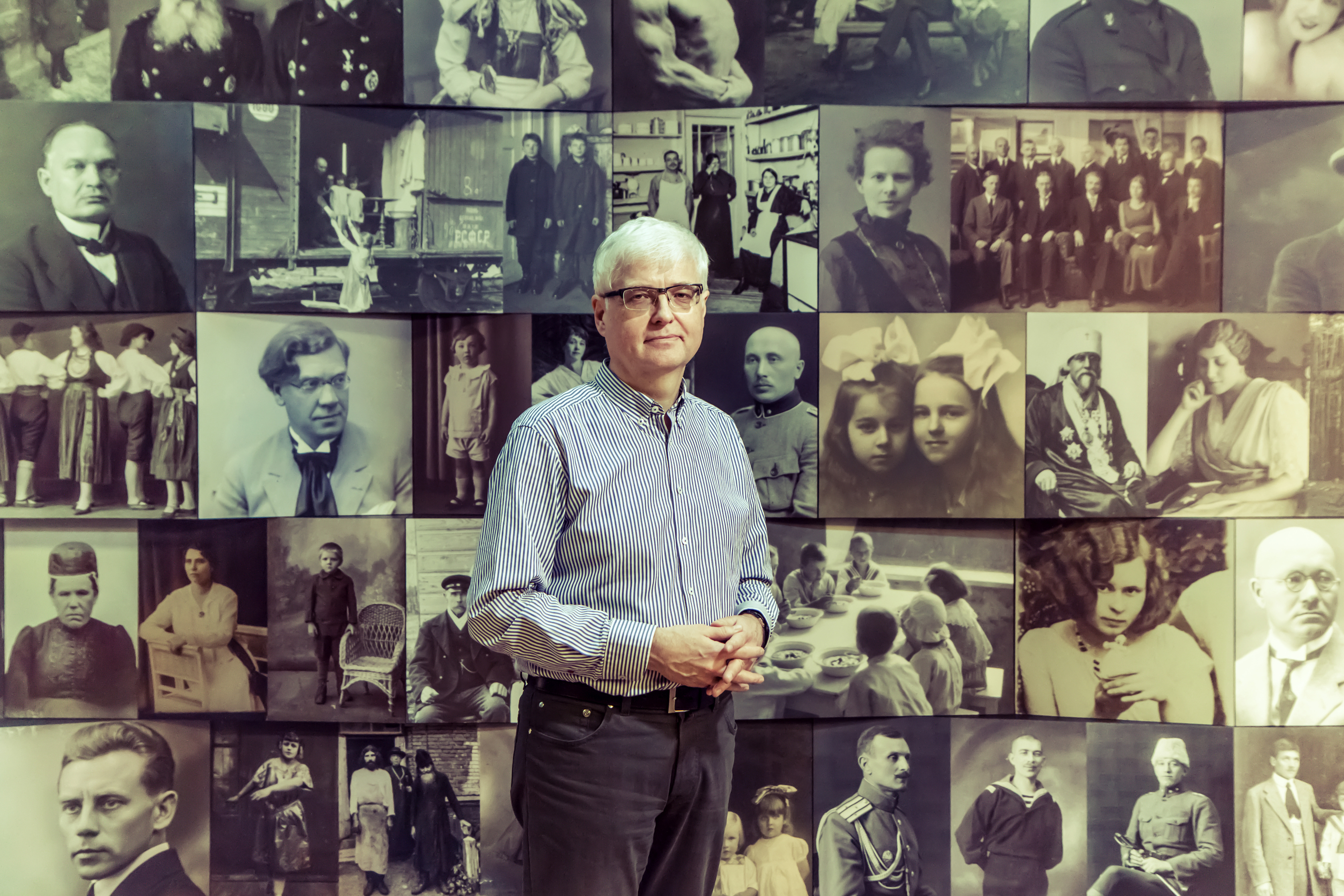 Historian Tõnu-Andrus Tannberg in the lobby of Noora, the main building of the National Archives of Estonia.